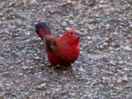 Rock firefinch, journey from Maroua to Waza National Park, Cameroon